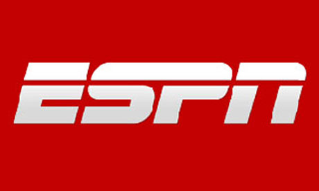 An identification card for the American cable television network ESPN.